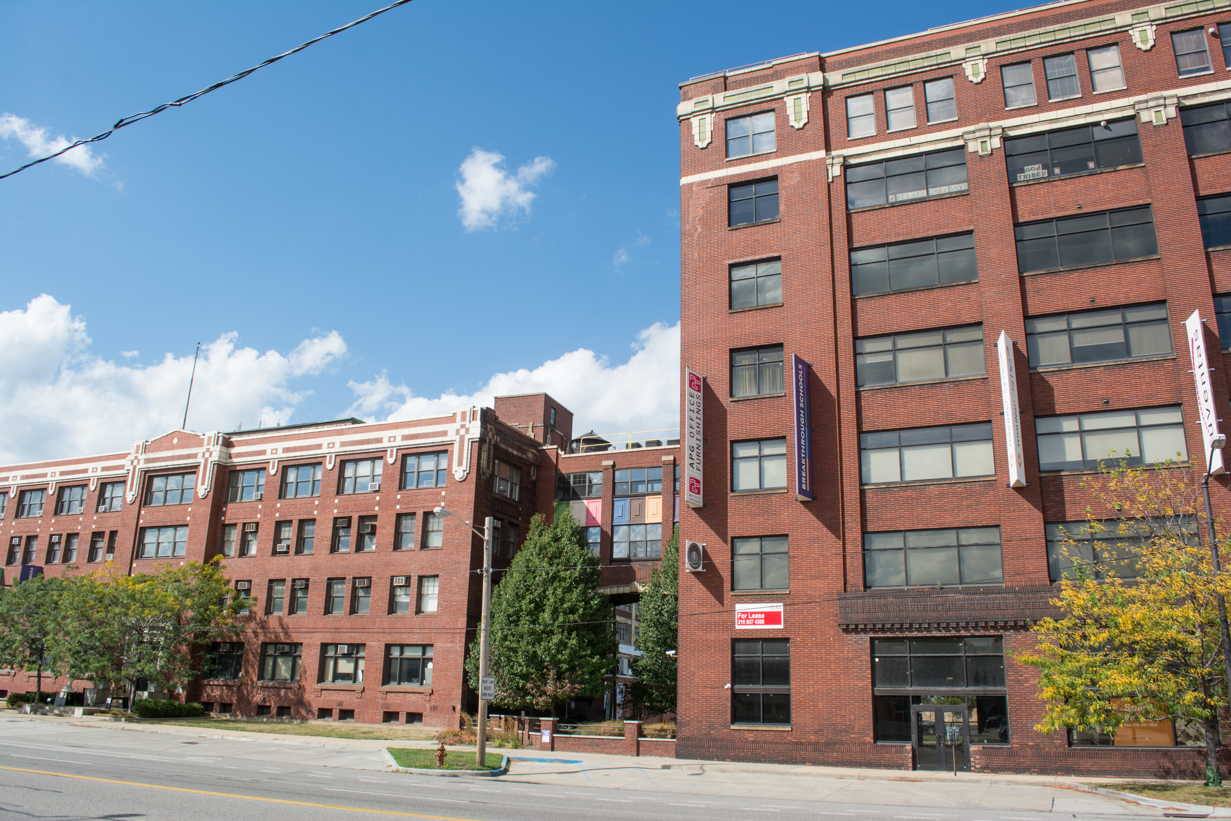 Tyler Village, located at 3615 Superior Avenue in Cleveland, Ohio, in the United States. The first structures here were originally erected in 1913 by the W.S. Tyler Co., manufacturer of specialty wire products and elevator cabs. From the 1890s to the 1940s, the firm constructed 24 buildings containting a total of 1 million square feet of space on a 10-acre site. Skywalks connected many of the buildings; the complex straddled 36th Street.. Tyler Co. slowly shrank in the 1950s and 1960s, and vacated most of the complex in 1962. The building was sold to Combustion Industries in 1968. The small elevator cab fabrication subsidiary moved out in 1984. Real estate developer Anthony Asher purchased part of the complex in 1975, and the remainder in 1978. converted to condominiums, while the rest was renovated into smaller spaces for light industry. He renamed the complex Downtown Cleveland Industrial Park. Asher sold the property to his sons in the 1990s, but then bought it back in 2005 via his Greystone Commercial Real Estate company. Since then, several buildings were demolished to create parking space, while the others have been refurbished into retail and light industry space. Businesses located there include nonprofits, several handcrafted furniture companies, artist lofts, a bus and boat charter company, a soda pop manufacturer, a ballet studio, a moving company, several I.T. firms, a vinyl record pressing plant, management firms, start-up biotech and pharmaceutical labs, and three charter schools.